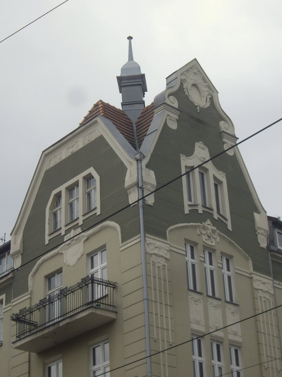 Dabrowskiego 46, Poznan (detail), arch. Max Biele